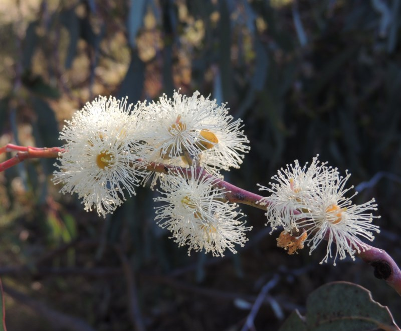 Flowers of Eucalyptus nortonii in Rob Roy Range Nature Reserve, in the hills to the east of Banks